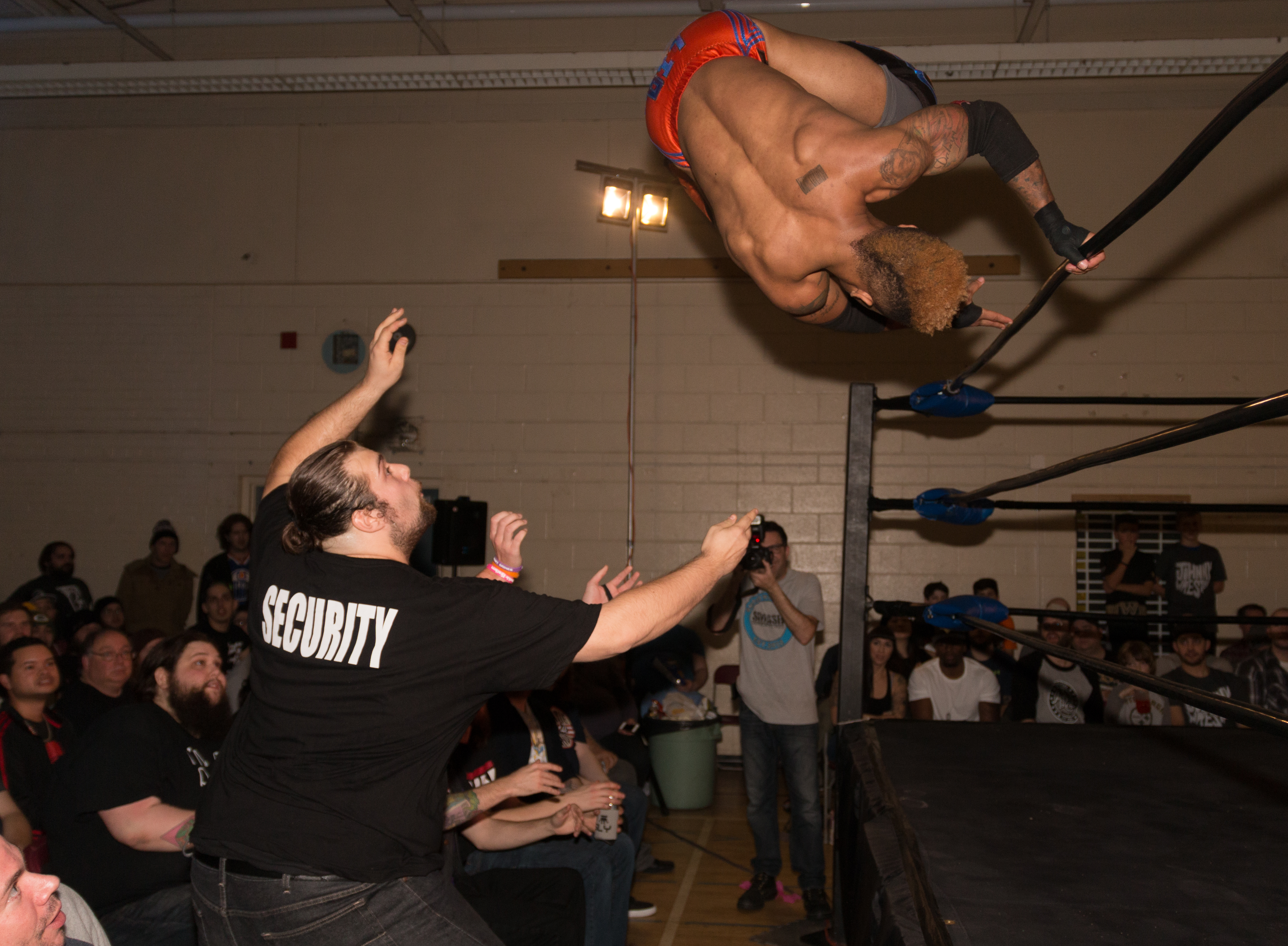 Lio Rush doing a somersault plancha at a Smash Wrestling show in Etobicoke, ON